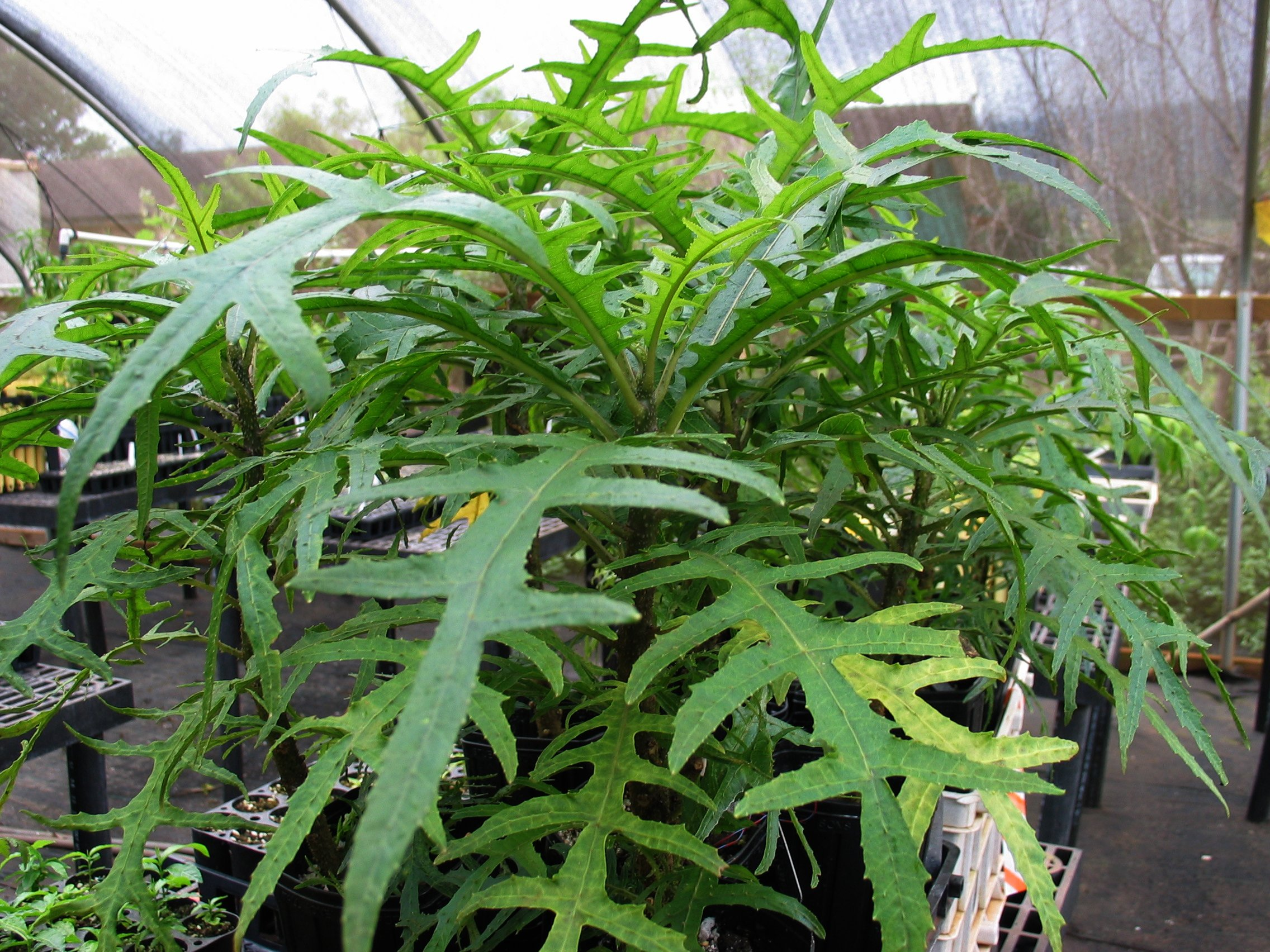 Hāhā Campanulaceae Endemic to the Hawaiian Islands (Oʻahu only) Endangered Oʻahu (Cultivated) Ready for outplanting.